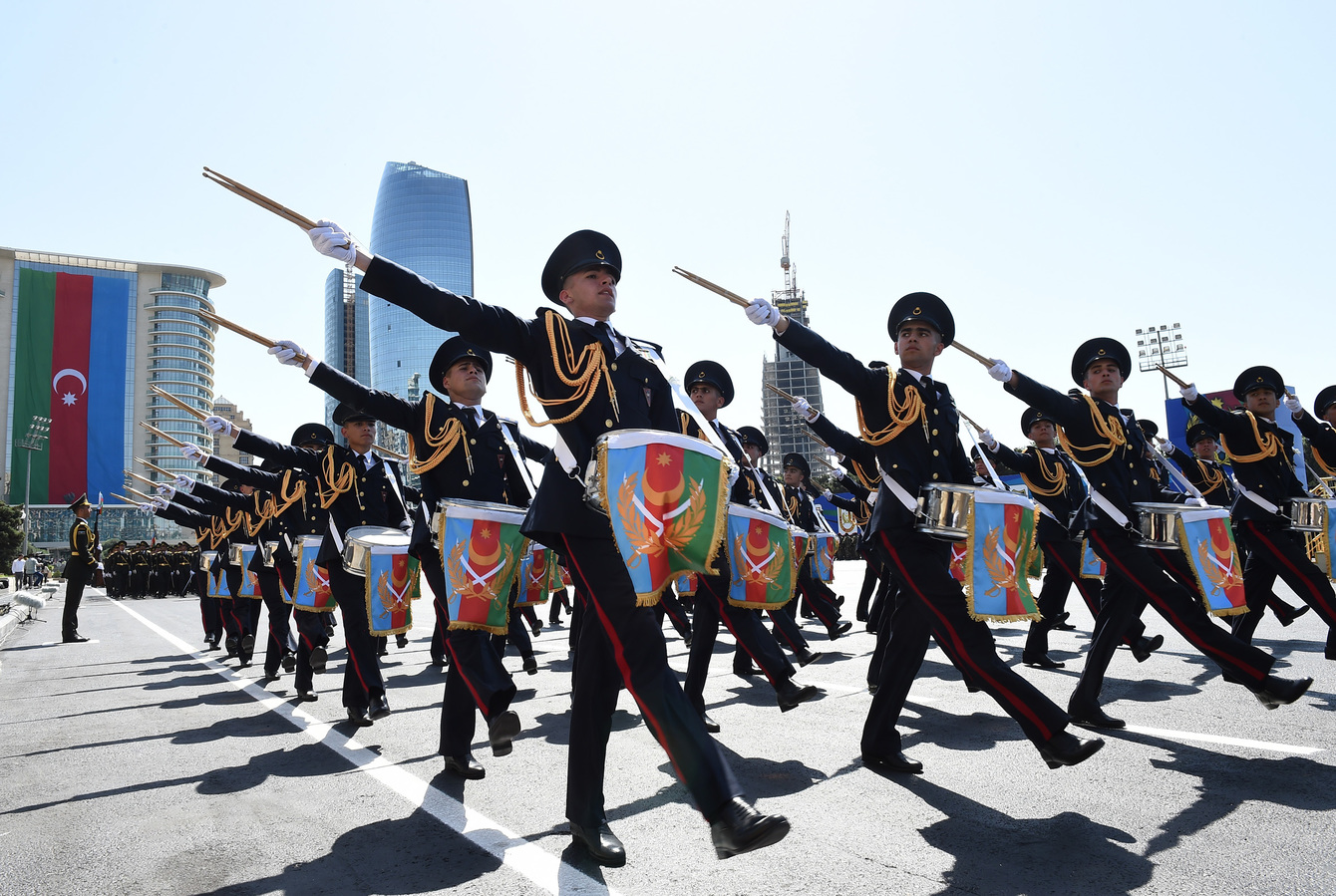 A solemn military parade has been held in Baku to mark the centenary of the establishment of the Armed Forces of the Republic of Azerbaijan.